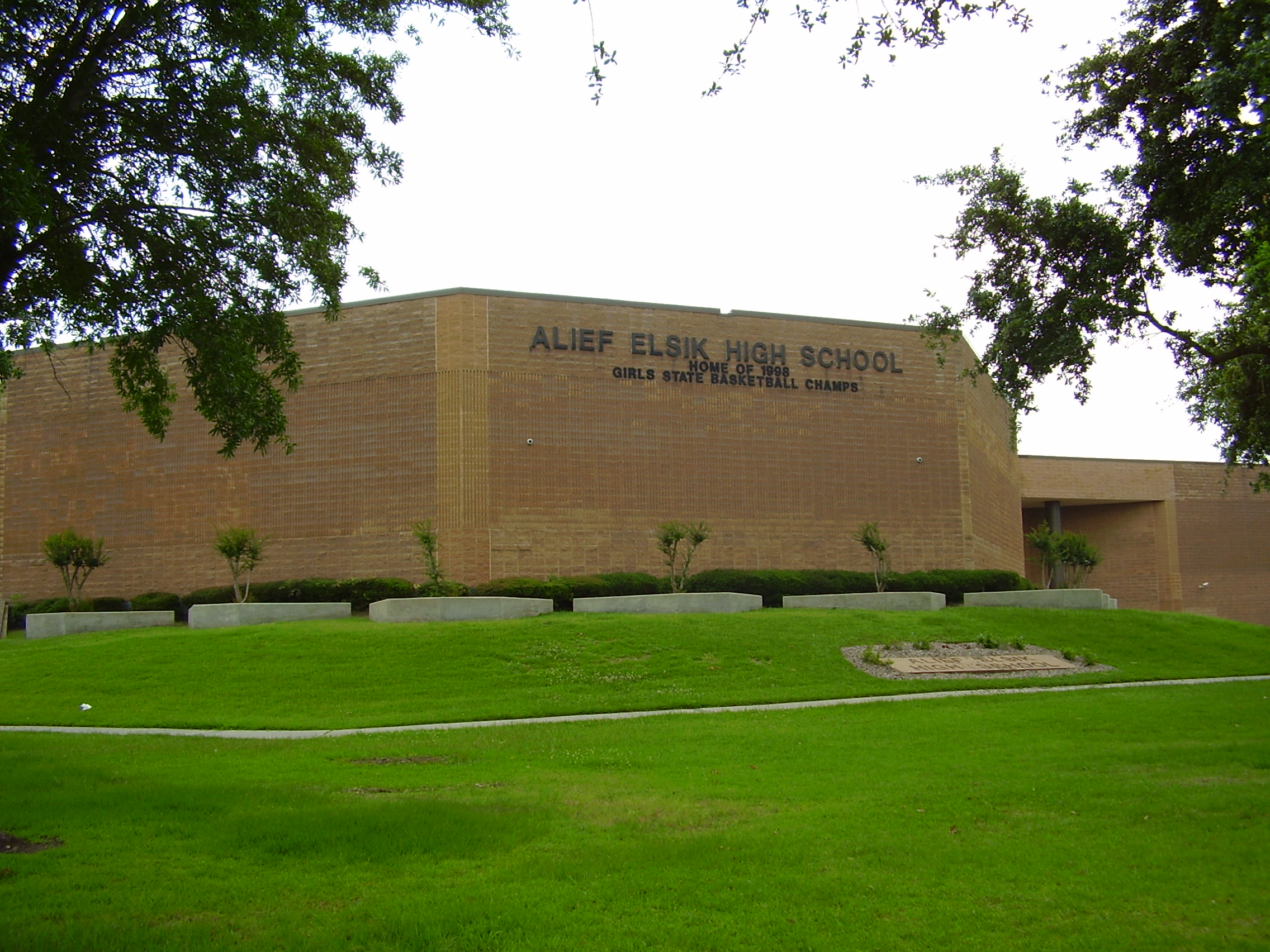 Elsik High School